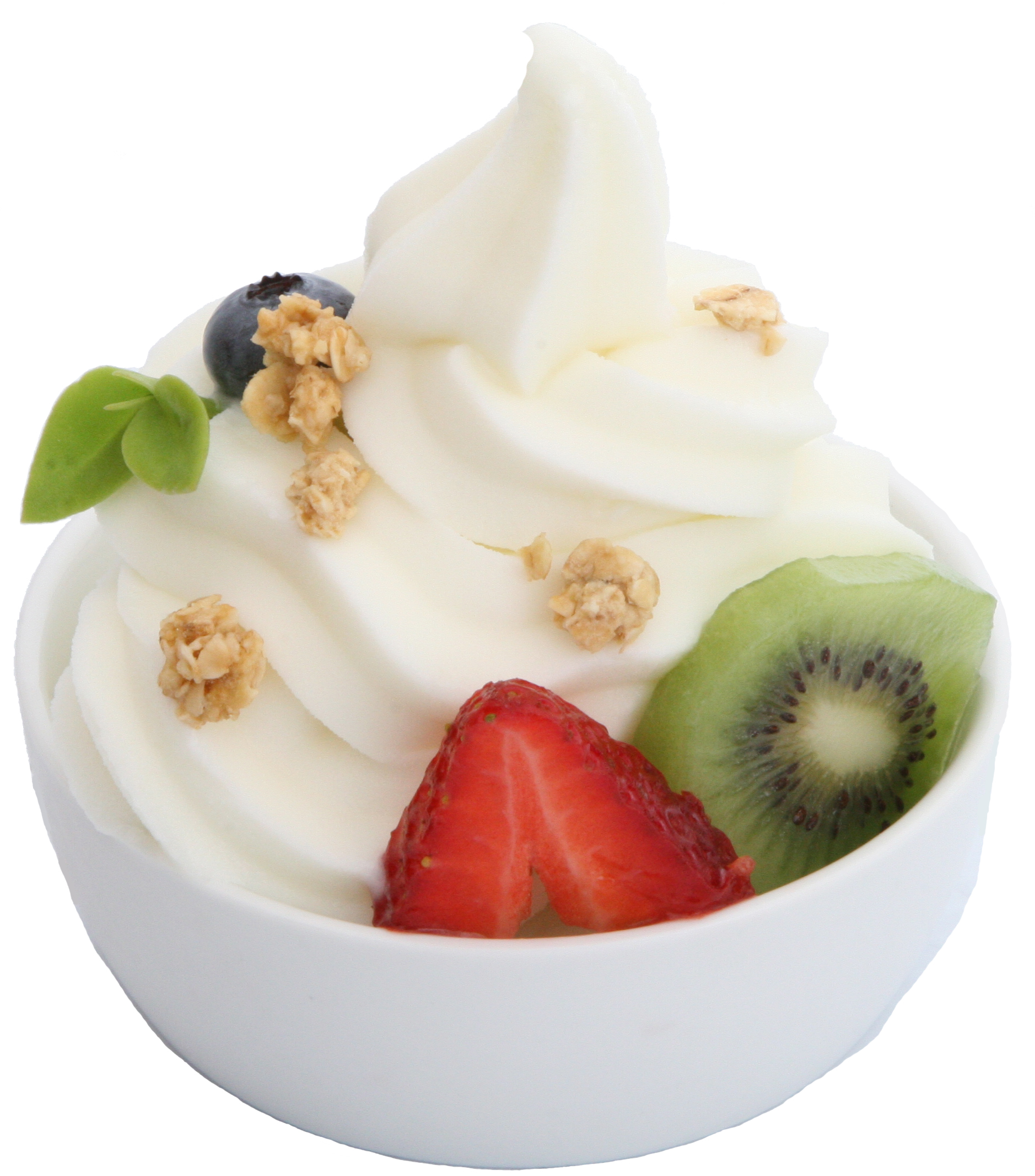 Yogurt, Yogurtland, Frozen Desserts